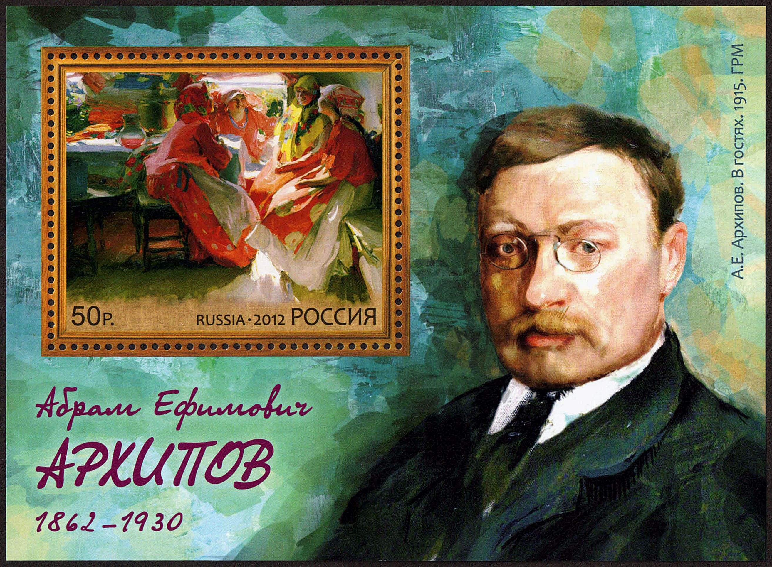 150th birth anniversary of the Russian painter Abram Arkhipov (1862–1930).The souvenir sheet of Russia, 1 stamp×50.00 Rubles, 7 September 2012, PTC Marka Catalogue No 1629, Michel No 1861 (Block173). Coated paper. Offset printing. Perforation: frame 12×12½. The size of the souvenir sheet: 109×80 mm. The size of the stamp: 50×42 mm. Print run: 85,000.At a Party by Abram Arkhipov. 1915.The margins of the souvenir sheet: the portrait of Abram Arkhipov.